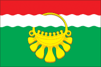 Flag of Rybolovskoe, Moscow oblast, Russia